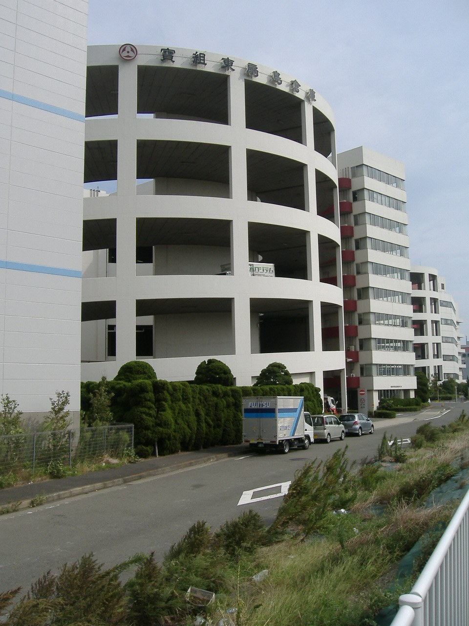 Takaragumi_HigasiOhgishima-Warehouse (Kawasaki, Japan)